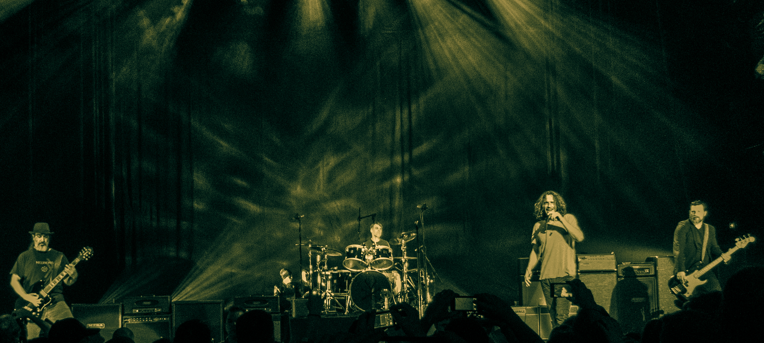 Soundgarden performing live at Paramount Theatre, Seattle (2013).